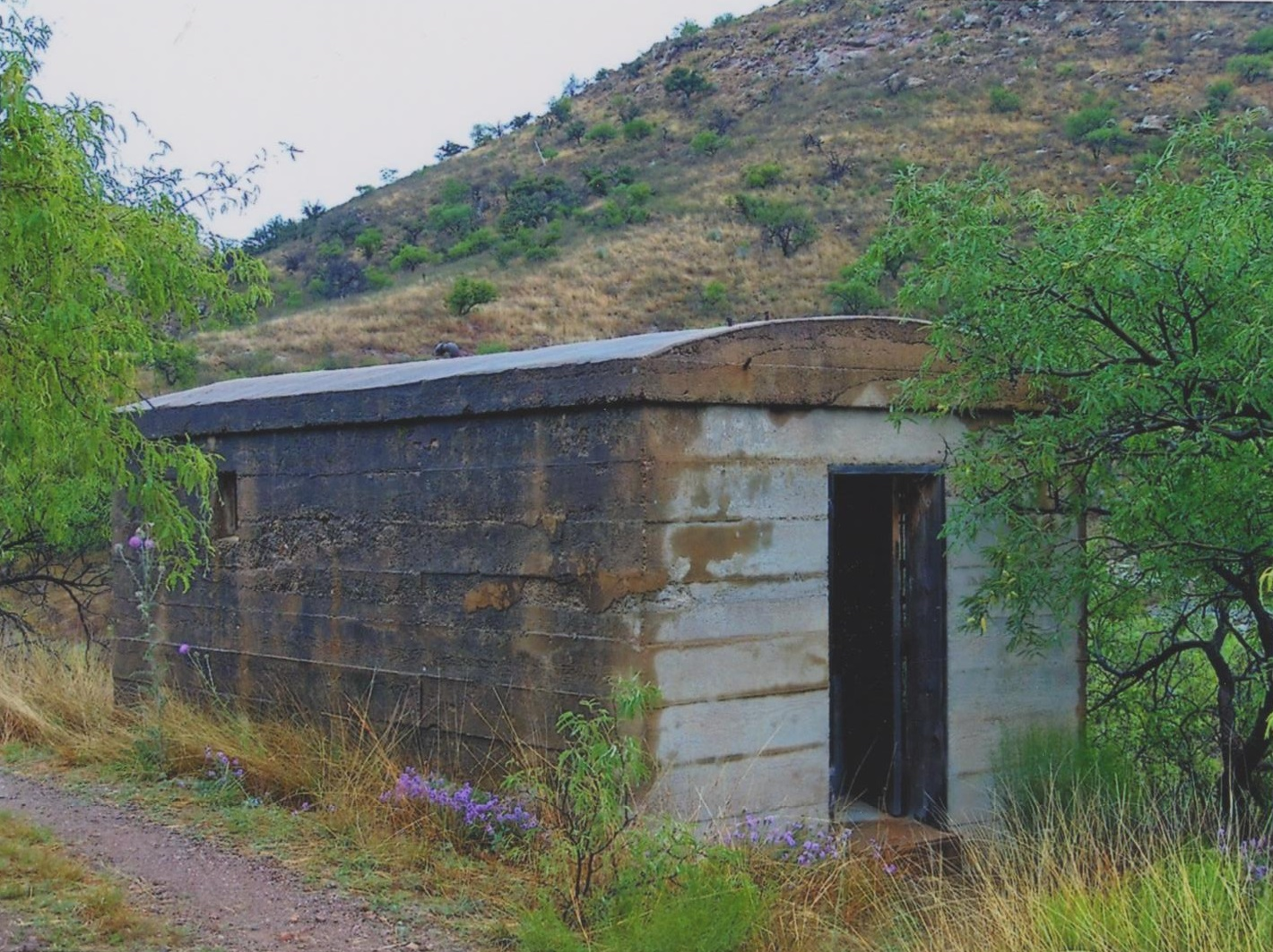 One-room jail or calaboose in the ghost town of Ruby, Arizona. Built in 1936 and added to the National Register of Historic Places in 1975.